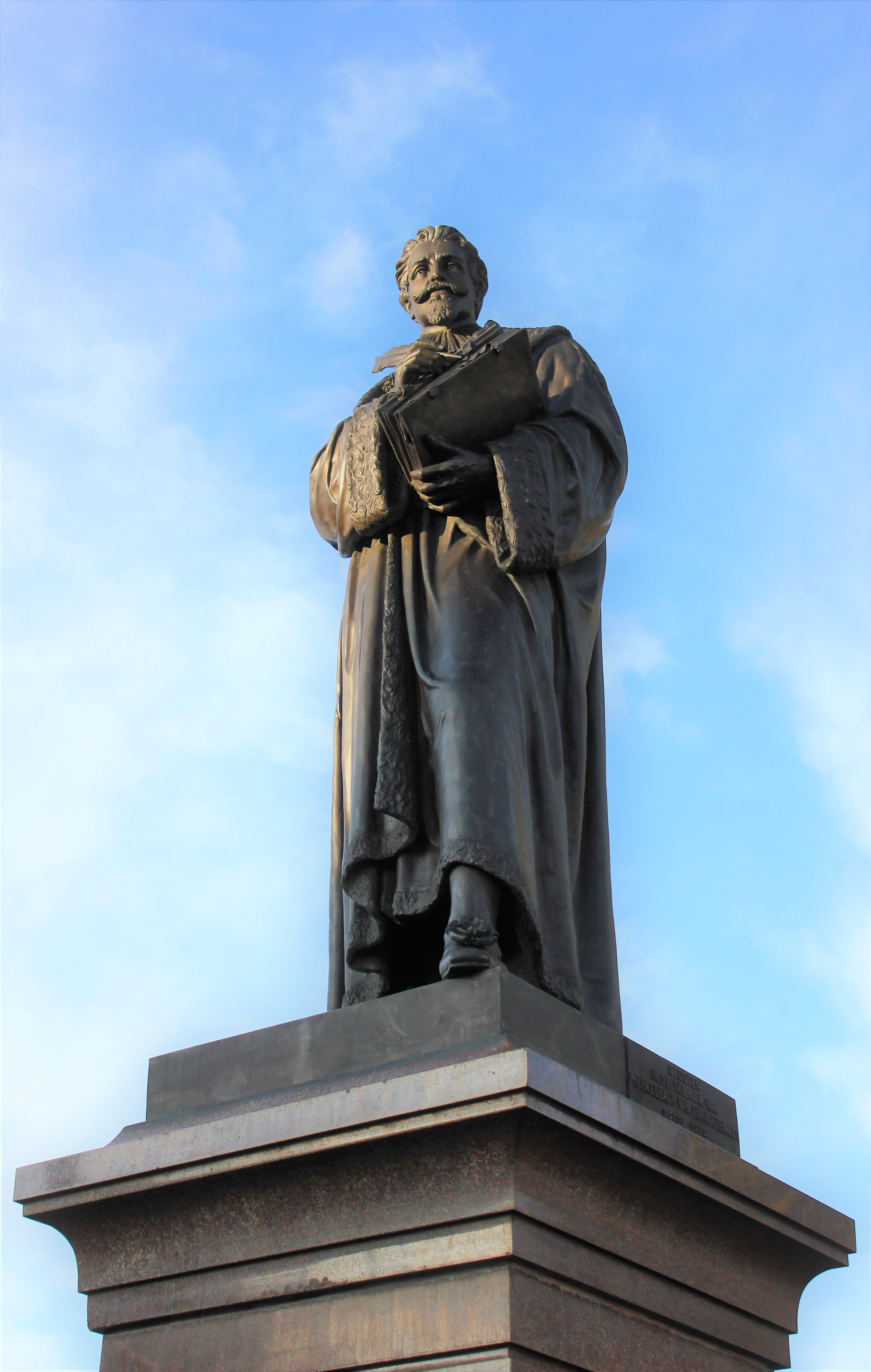 Statue of Hugo Grotius in Delft, the Netherlands․ Hugo Grotius, also known as Huig de Groot or Hugo de Groot, was a Dutch jurist.